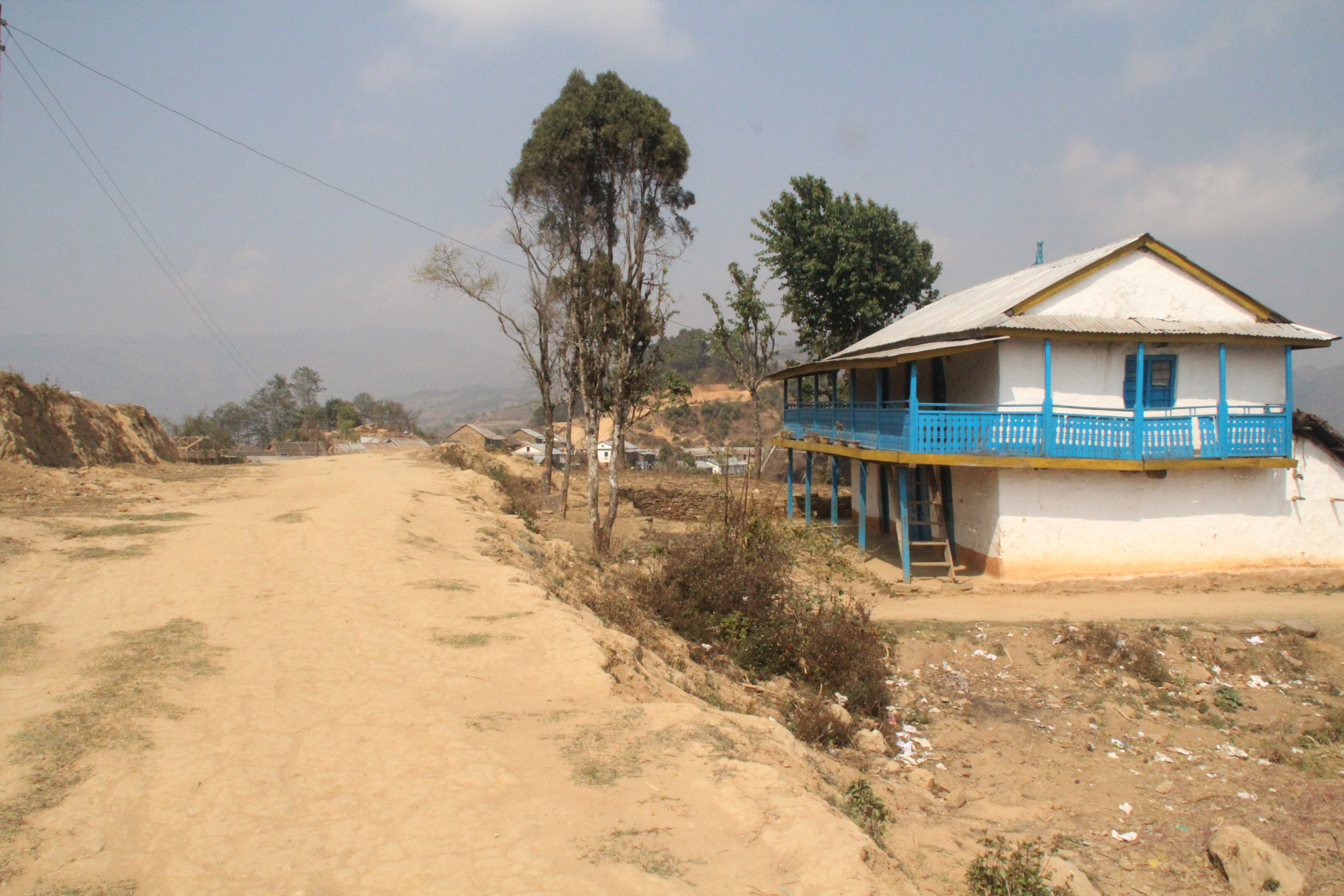 Land mark house of Ramu